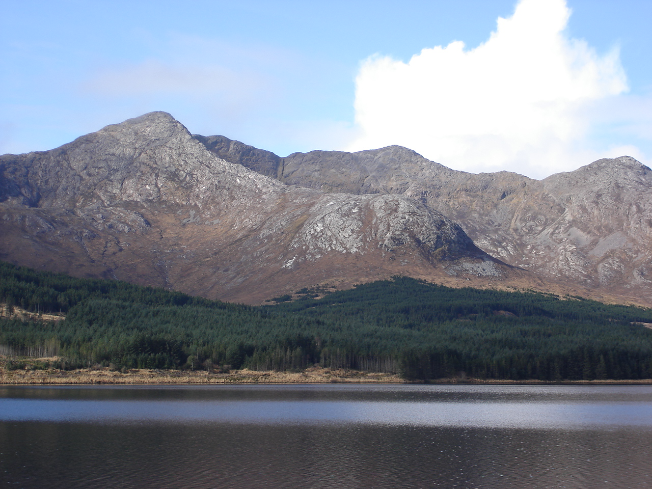 Bencorr (left) and Benbaun (right) from across Lough Inagh, part of the Twelve Bens, County Galway